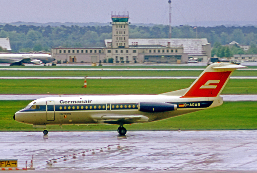 Fokker F-28 1000 D-AGAB of Germanair at Frankfurt Airport in 1973